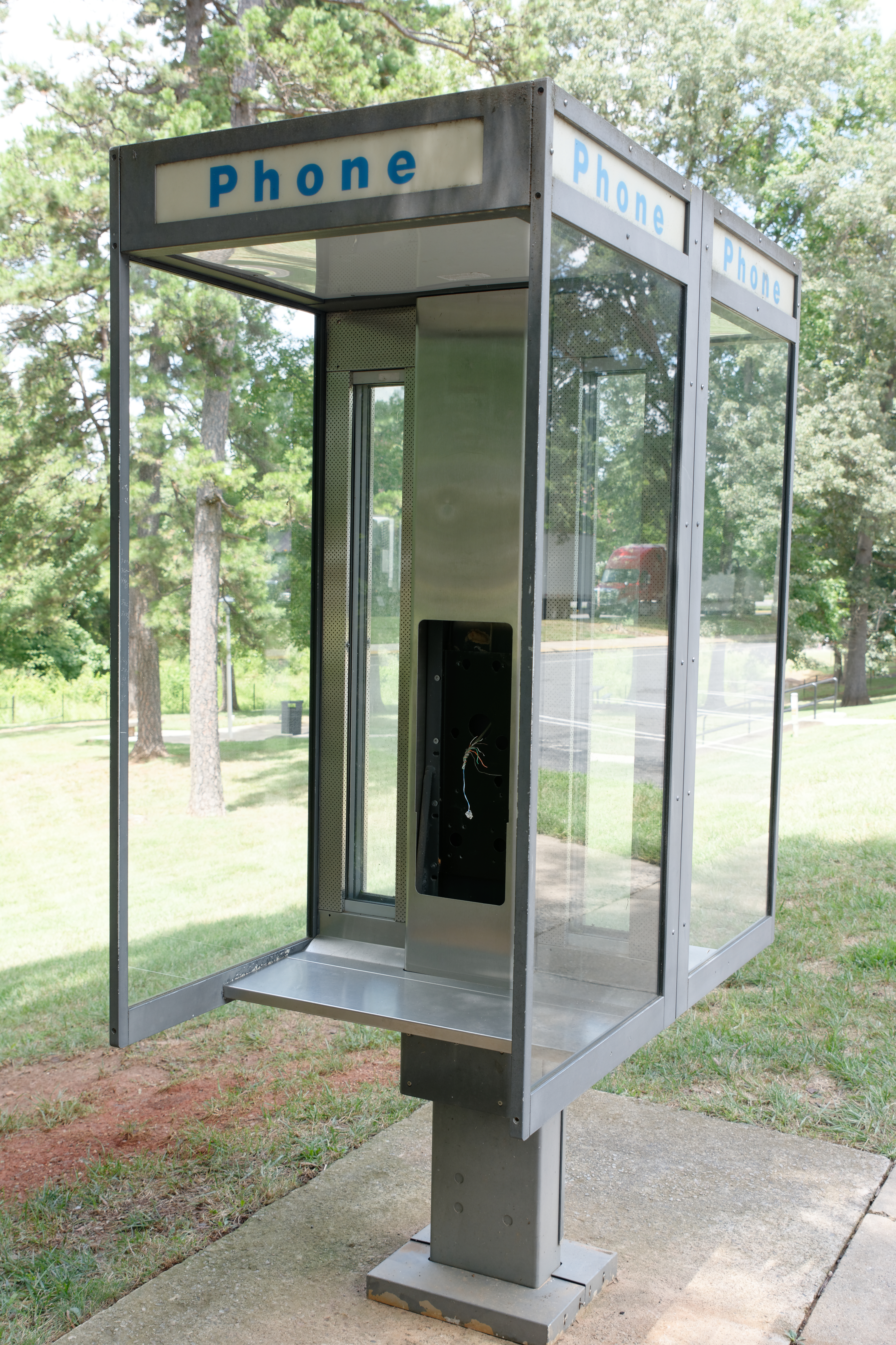 A phone booth at a rest stop in North Carolina, U.S.